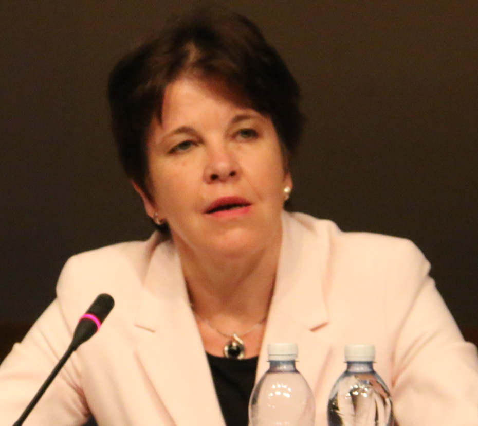 Teija Tiilikainen speaks at Helsinki +40 Commemorative Event, OSCE PA Annual Session, Helsinki, 6 July 2015